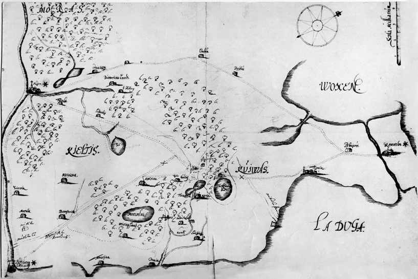 Map of Ingria and Karelia at 1580 year